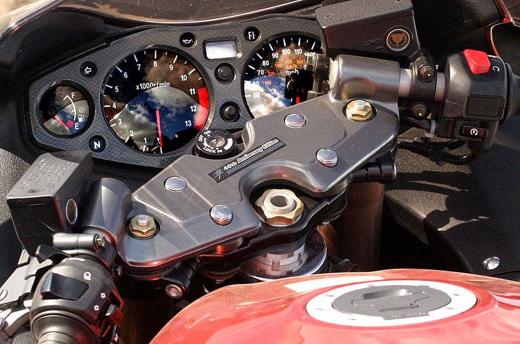 The dashboard of a Suzuki GSX1300R "Hayabusa".